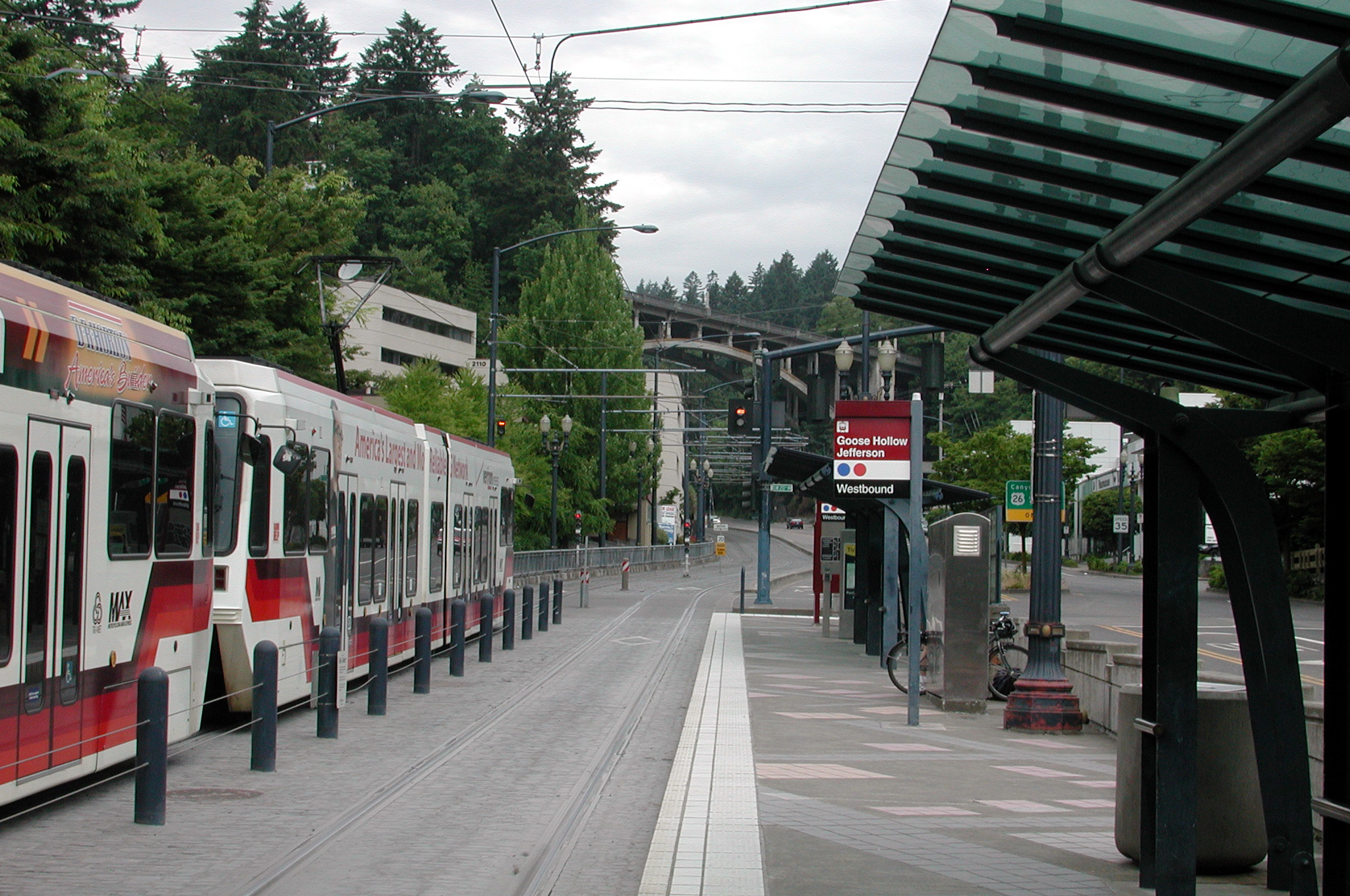 Goose Hollow Metropolitan Area Express (MAX) light-rail station in Portland, Oregon, United States, looking west toward the Vista Bridge